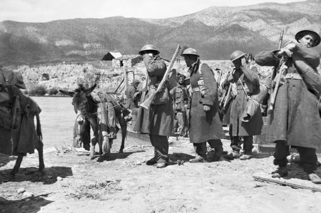 Infantrymen from the Australian 2/2nd Battalion after crossing the Aliakmon River on ferries during their retreat from Northern Greece following the German invasion of the country